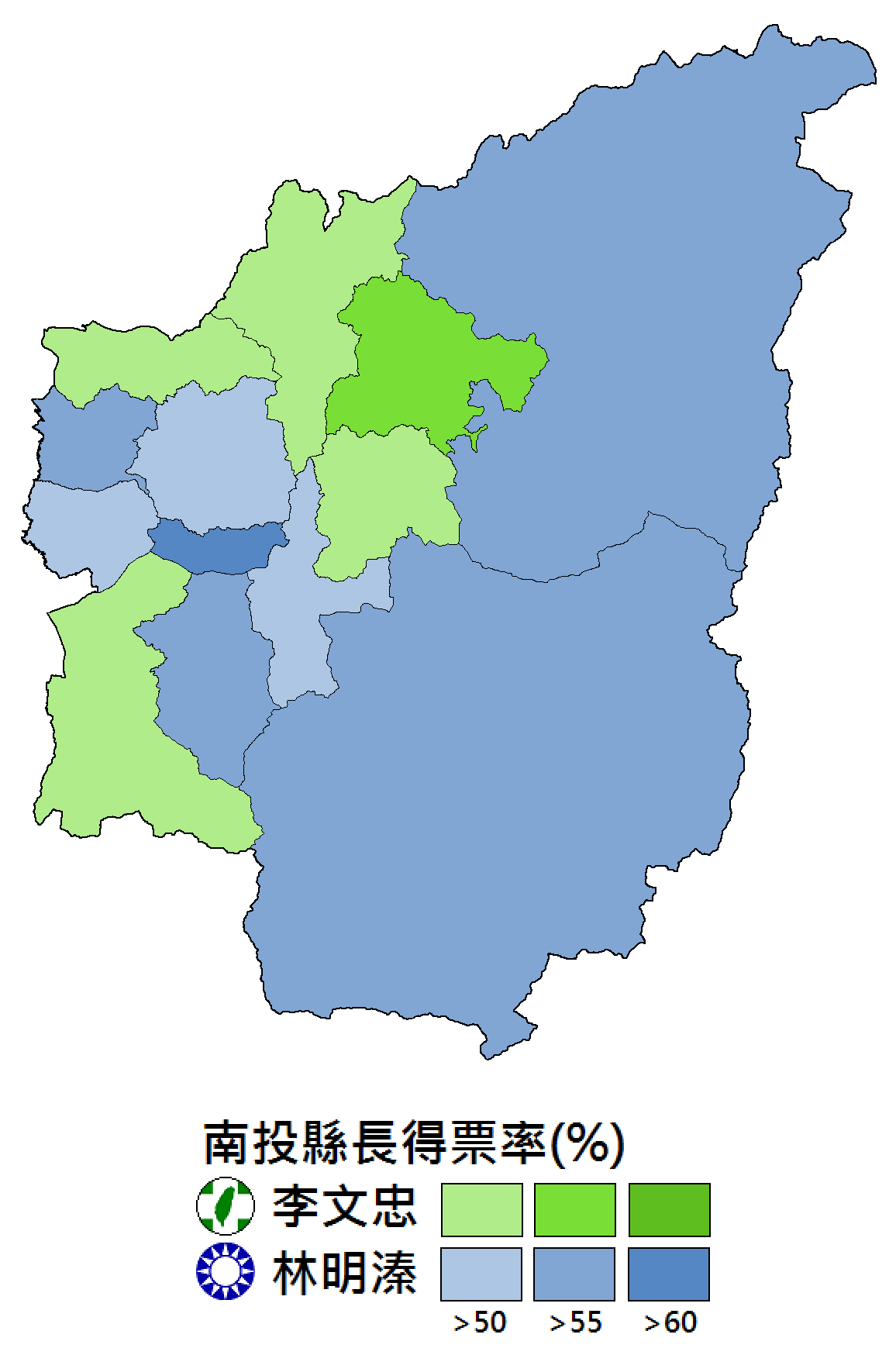 Nantou 2014 alternate